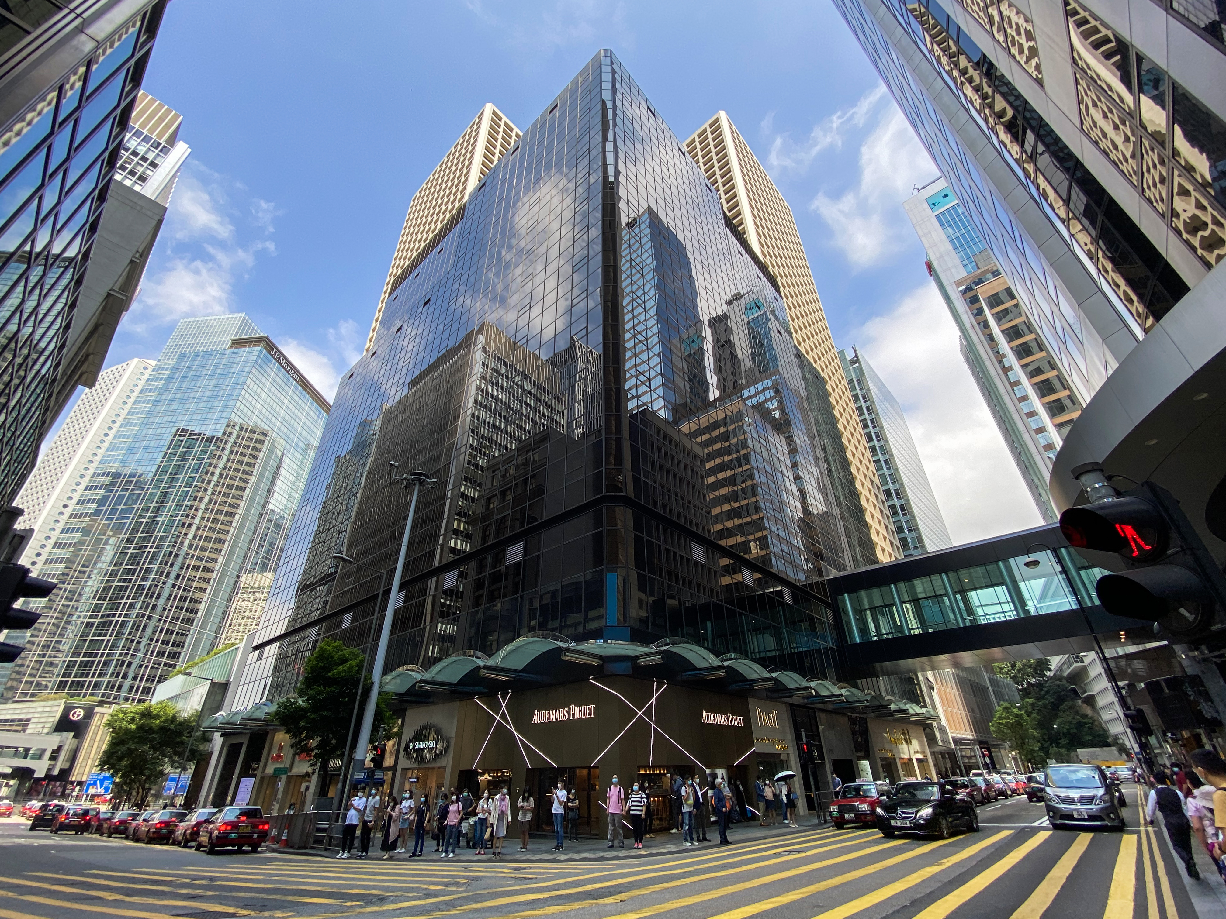 Central Building